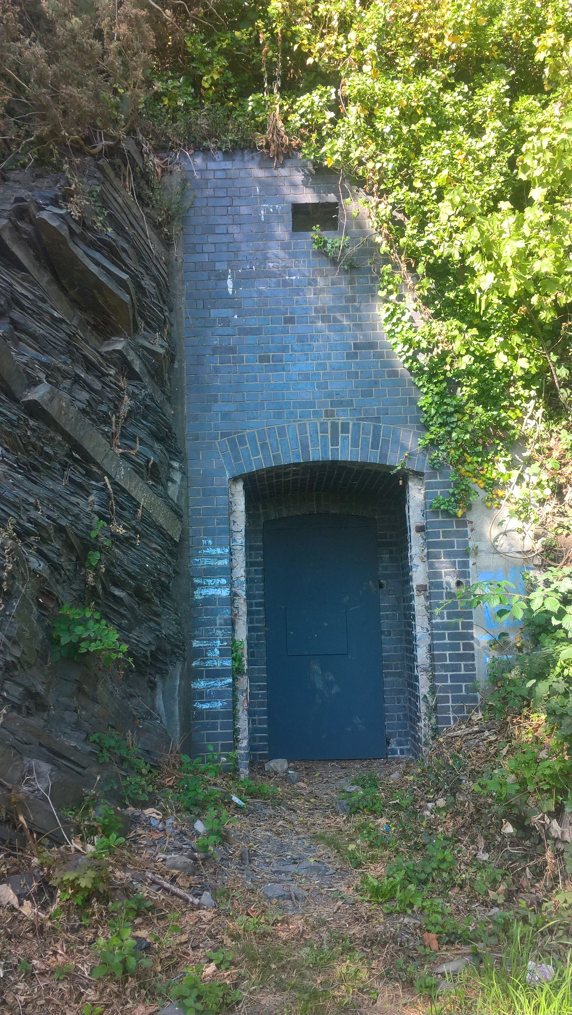 In the rock under the National Library of Wales is a tunnel, built by the library as a bomb-proof depository to be used in the event of war. During the Second World War, the British Museum was invited to make use of the facility, and 100 tons of books, manuscripts, prints, and drawings were transferred there for safe keeping.